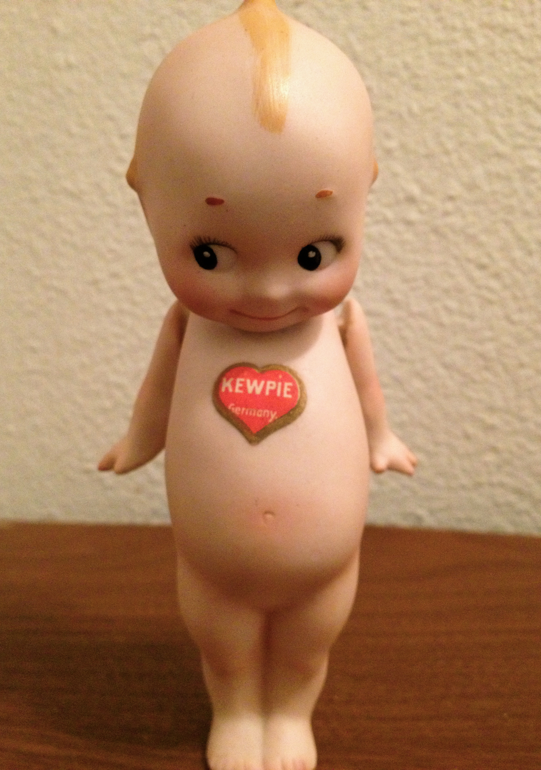 German bisque Kewpie, c. 1912, with original heart sticker on its chest.